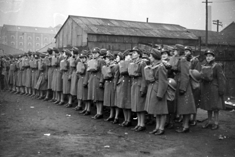 1944 -1945 17.5 cm x 12.2 cm 1 Black and white photograph Unidentified Canadian Women's Army Corps Unit in formation shortly after arriving in England, World War 2. To obtain high quality and larger reproductions of this image please visit the Galt Museum & Archives website: and include thIs number in your request: P19891053003